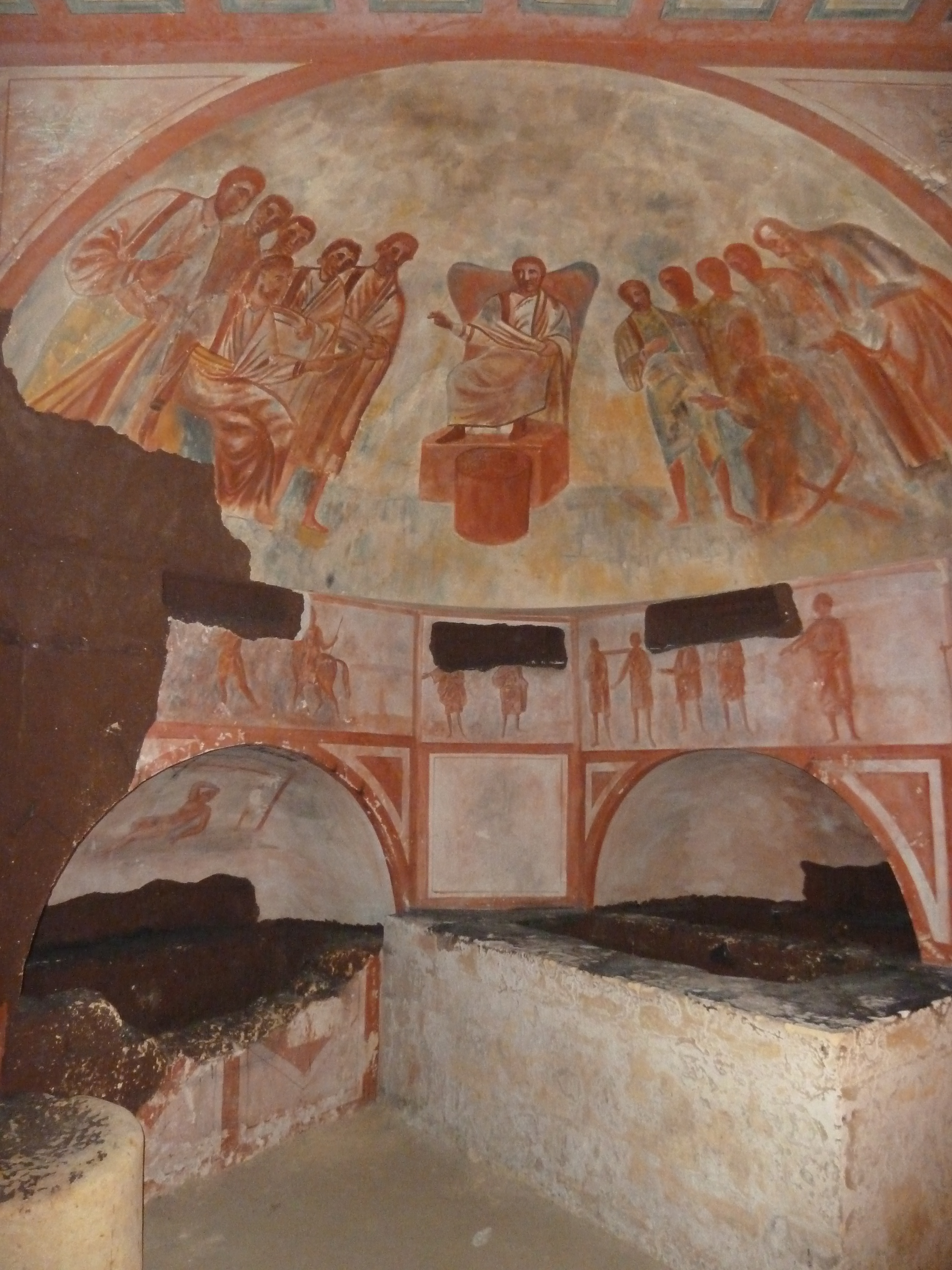 Romeinse catacomben, Valkenburg, Limburg, the Netherlands